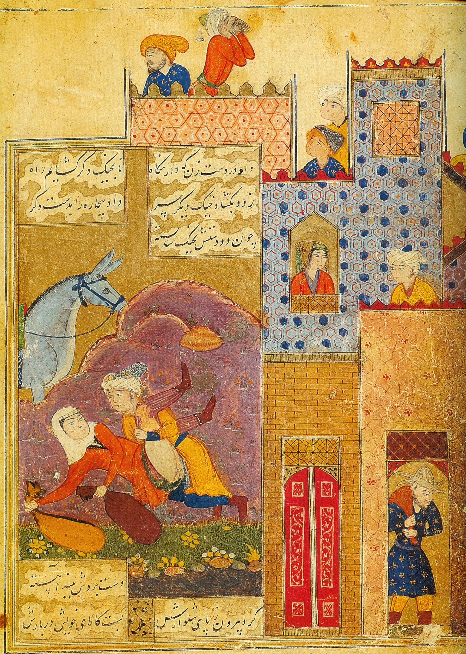 Unknown. Selselat al-ḏahab («The Chain of Gold») Jami. Qazvin, Iran